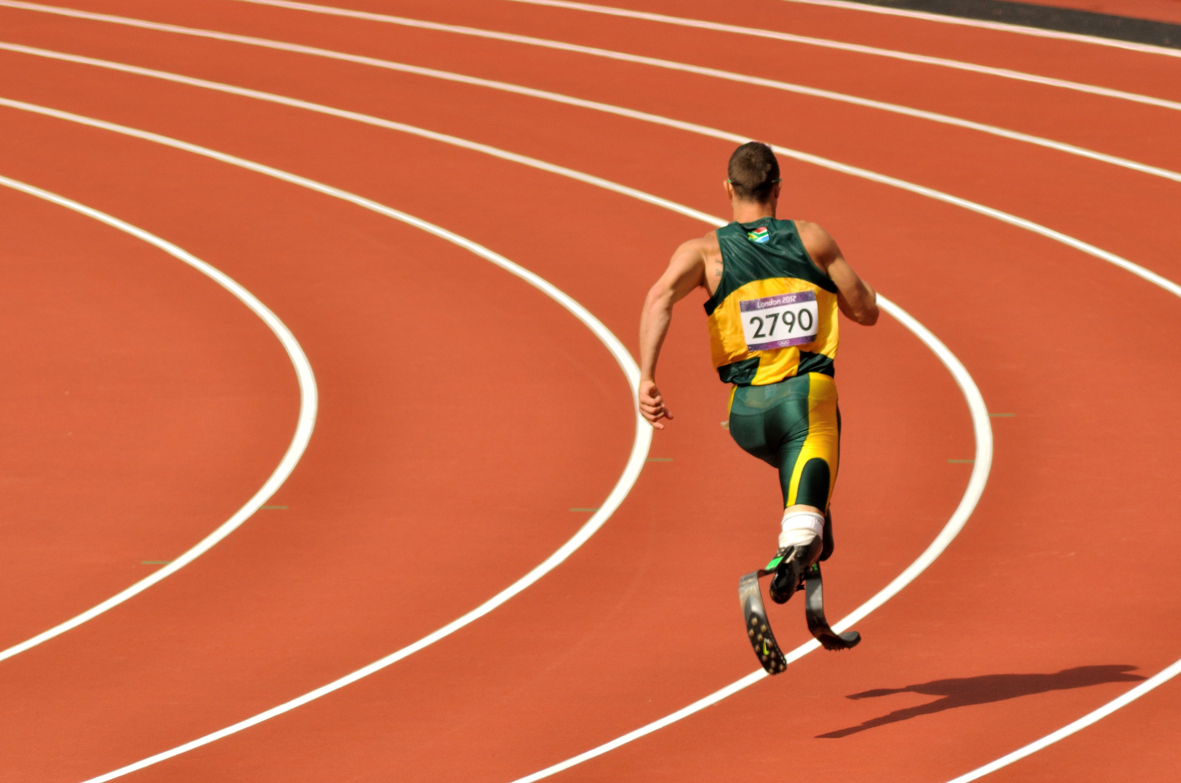 London Olympics 2012